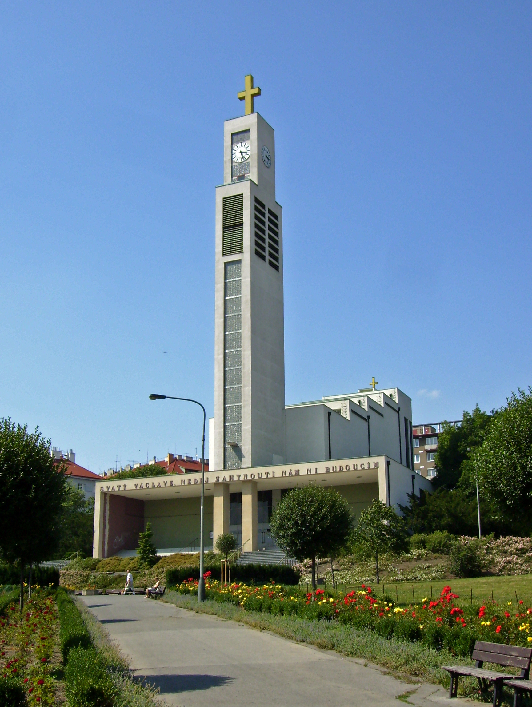 Saint Wenceslas church, Svatopluk Čech square at Vršovice, Prague (Czech Republic). Prestige functional building by Czech architect Josef Gočár from 1929–1930.